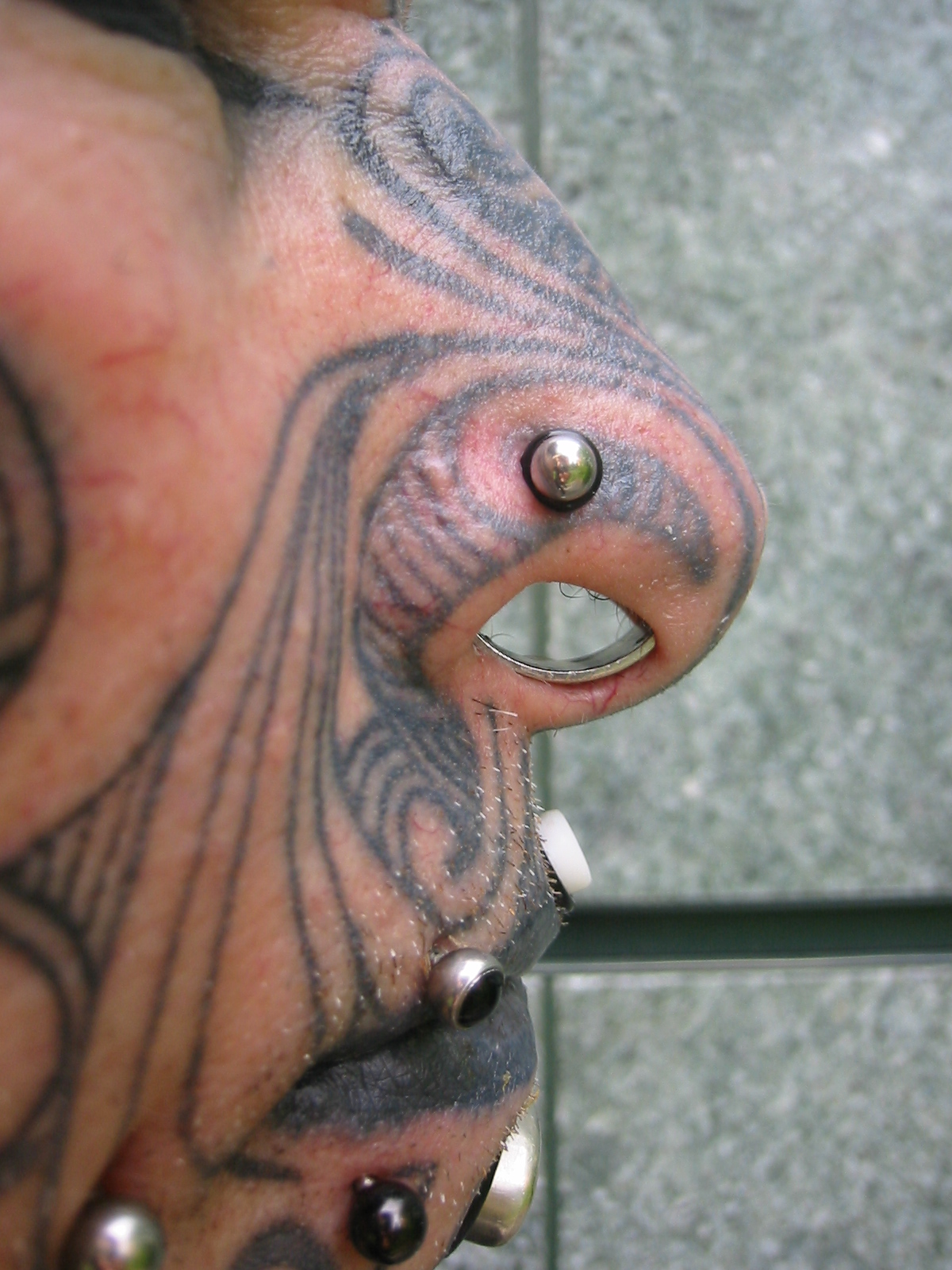 stretched septum and labret piercings